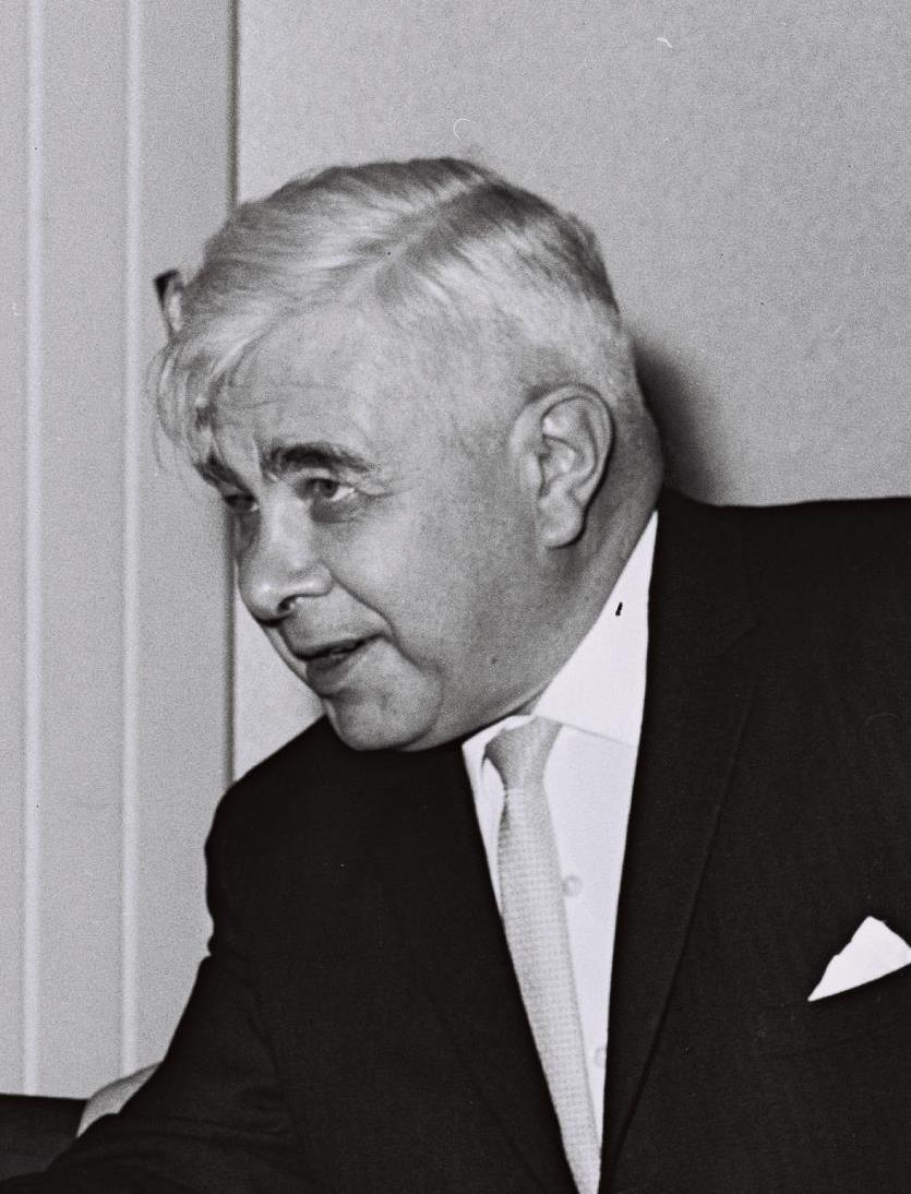 Bjarni Benediktsson, P.M. of Iceland, cropped from original: P.M. LEVY ESHKOL WELCOMING ICELAND P.M. BJARNI BENEDIKTSSON TO HIS OFFICE IN JERUSALEM.